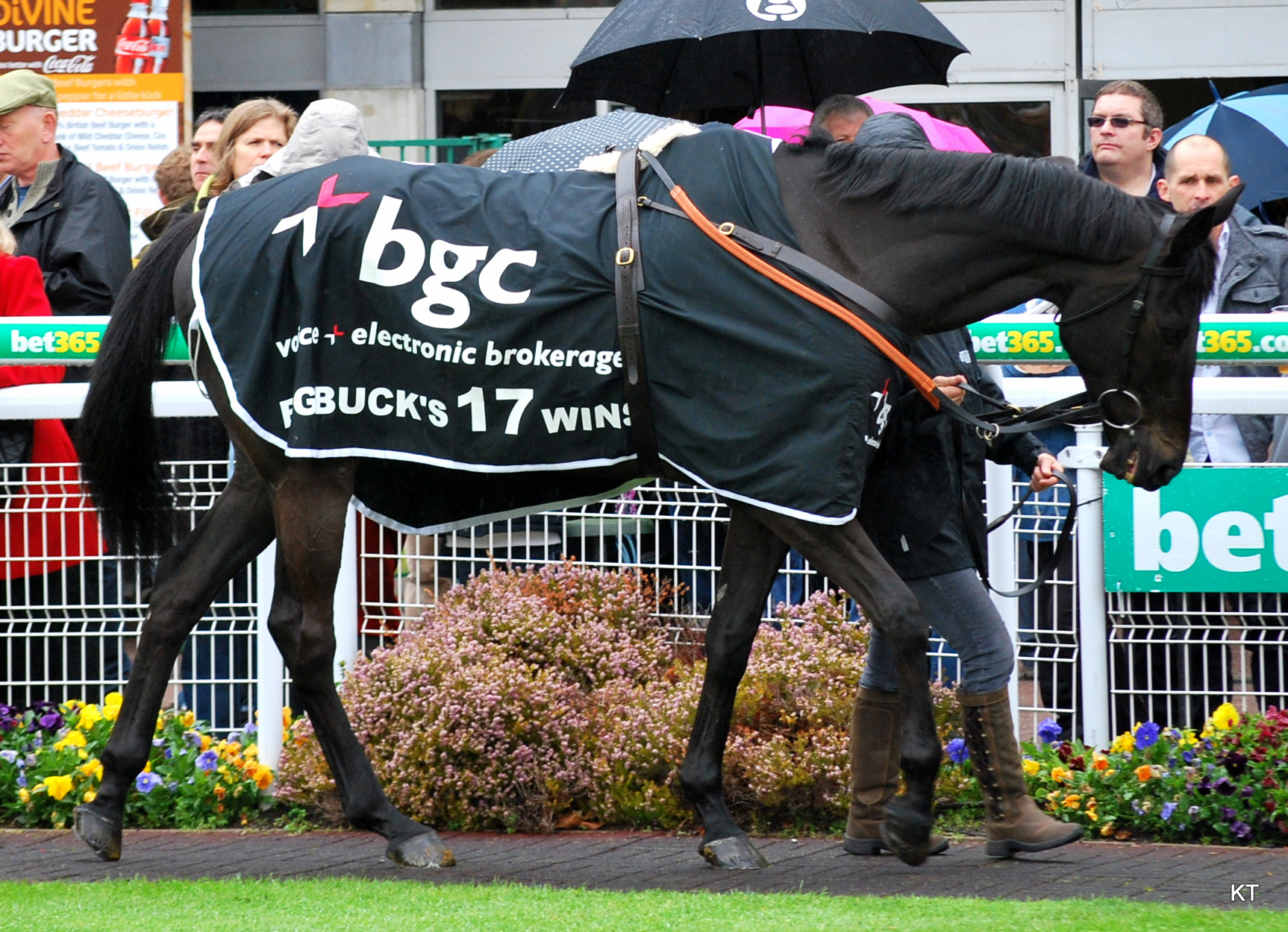 World Hurdle winner (again) Big Buck's in the Champions Parade at Sandown on bet365 Gold Cup Day, April 28th 2012.